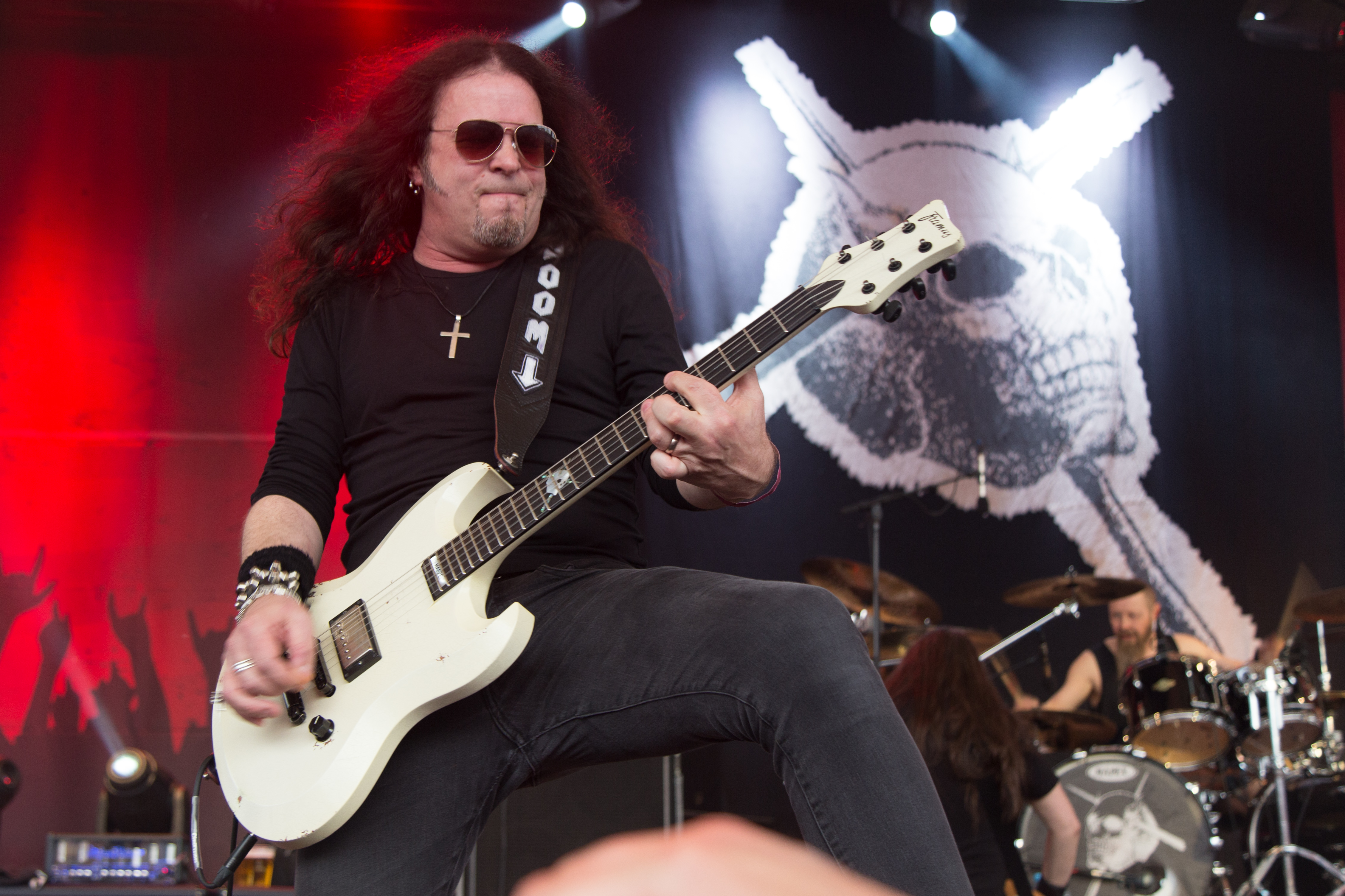 Candlemass performing live at Rock Hard Festival 2017, Gelsenkirchen, Germany